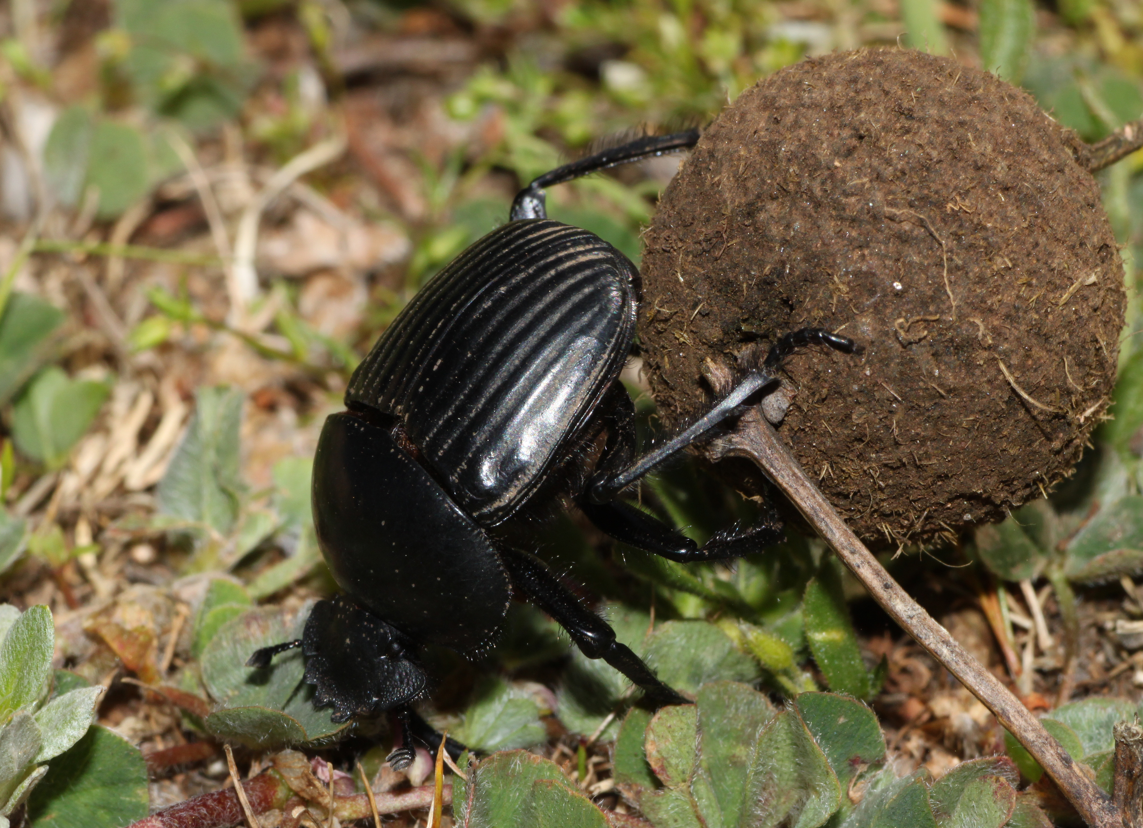 Dung beetle, Scarabaeus laticollis, Family: Scarabaeidae, Location: Italy, Sardinia